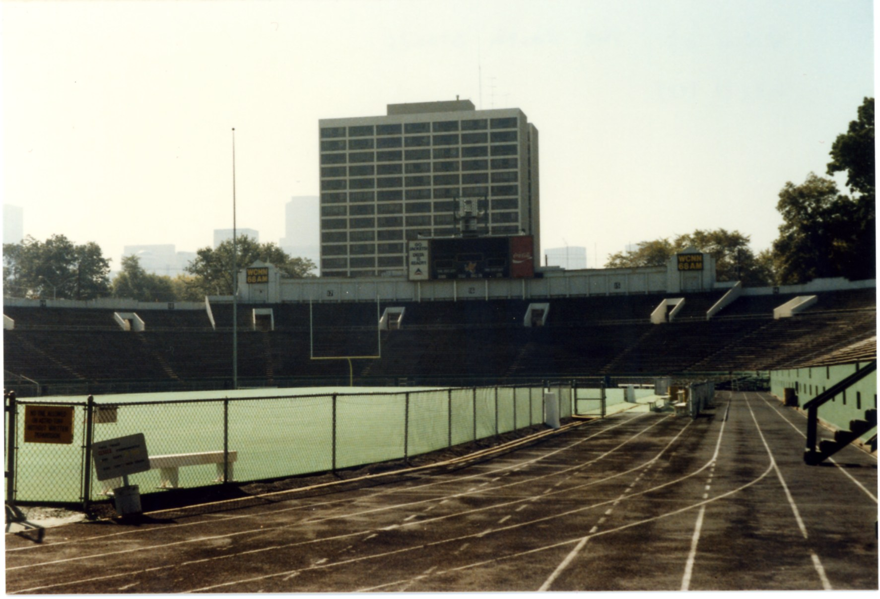 scanned image of picture I took of Bobby Dodd stadium looking south toward old south stands.